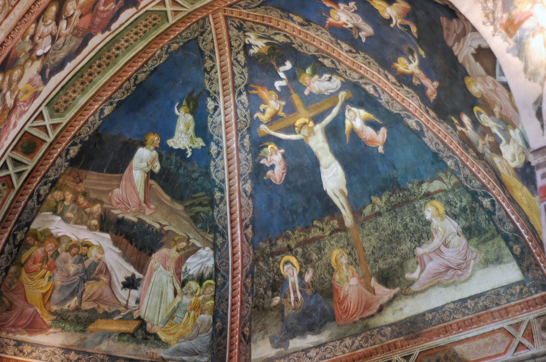 Jesus Christ on the Mount of Olives and the Crucifixion of Christ, two scenes from the frescoes of the Siena Baptistery, originally painted by the Michele di Matteo in the 15th century, largely restored in the 19th century.